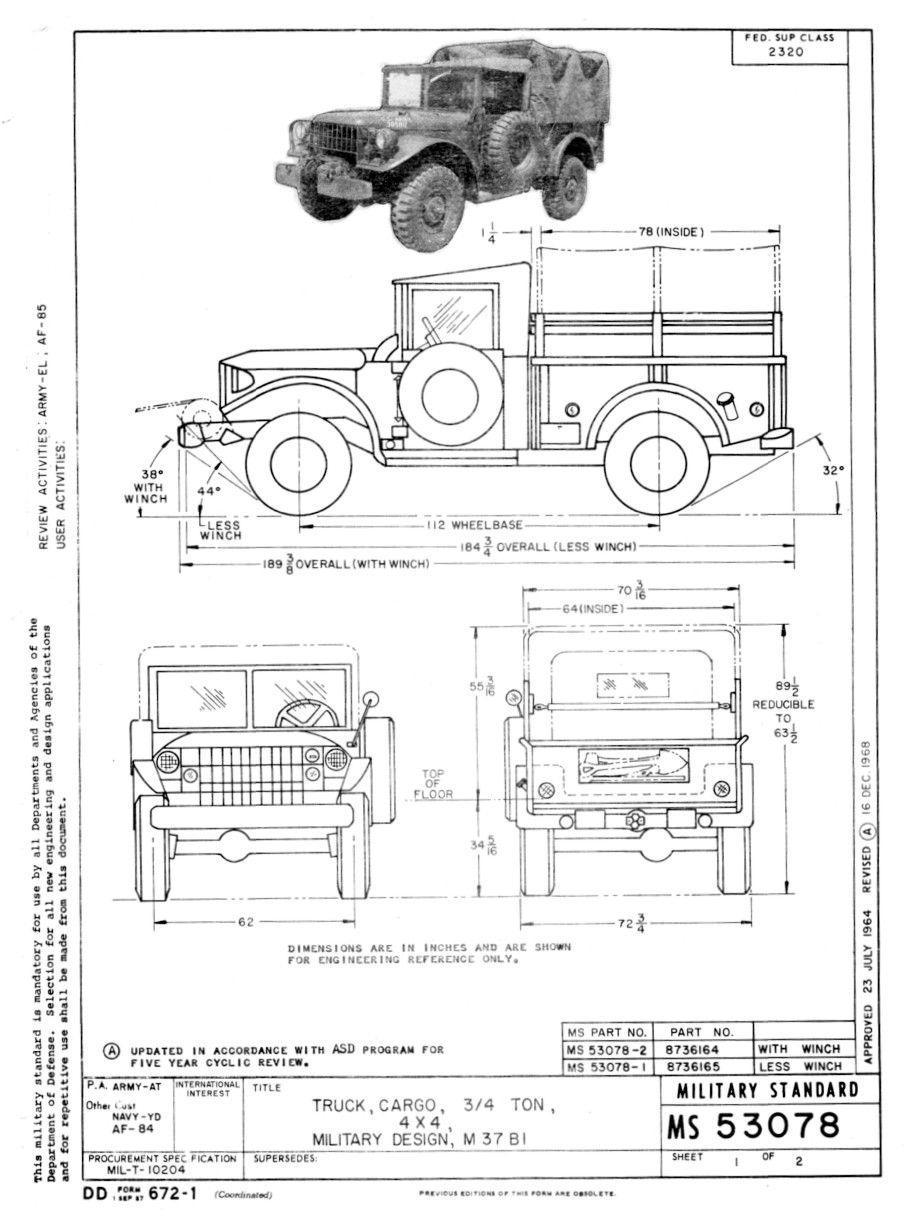 Identification photo, side, front and rear views, with technical dimensions